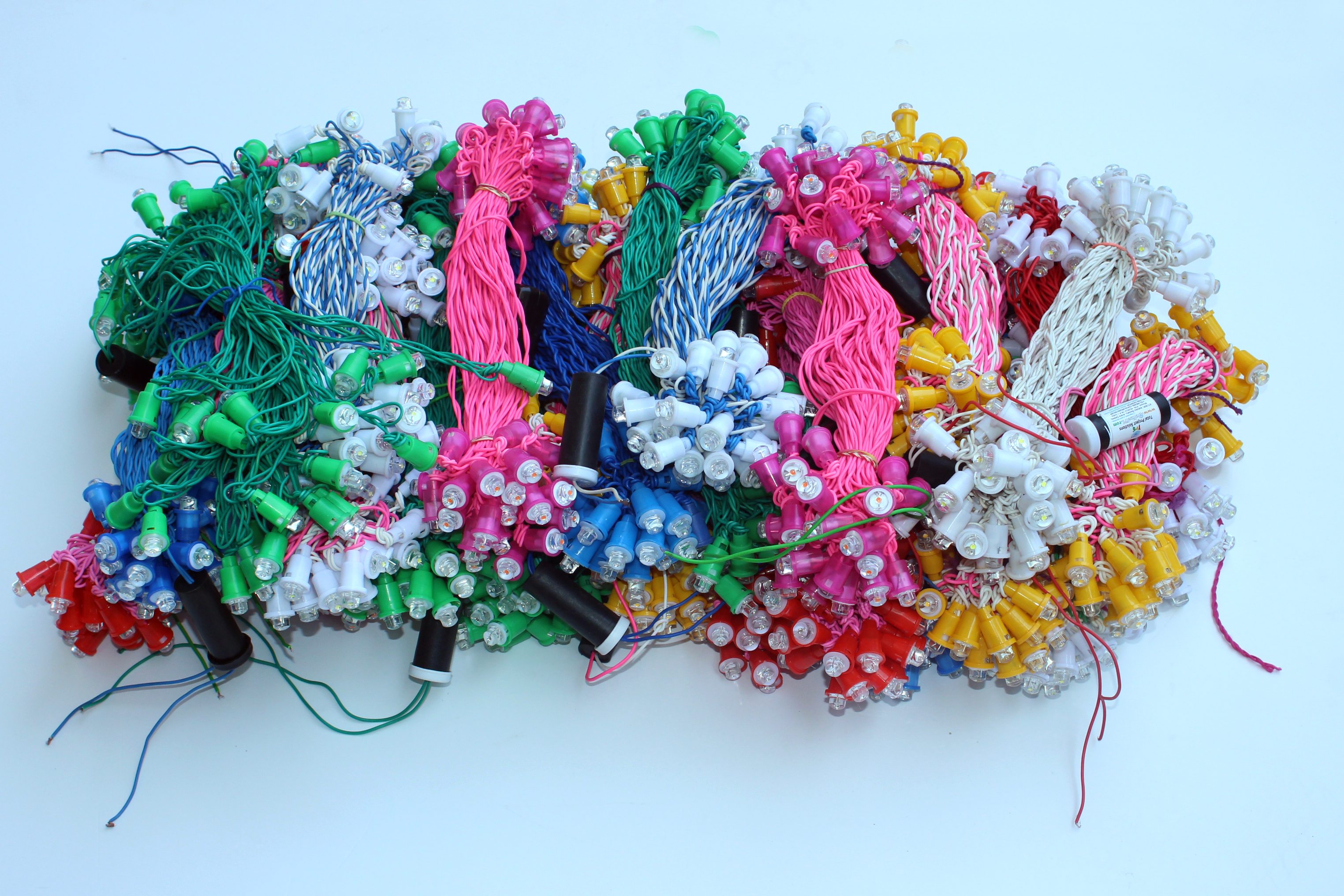 Decorative LED Series Lights Made in India